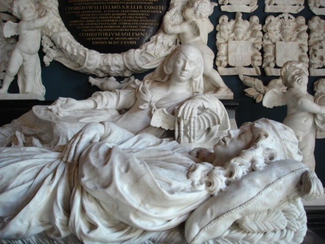 Rombout Verhulst (1669) - Tomb at Midwolde.